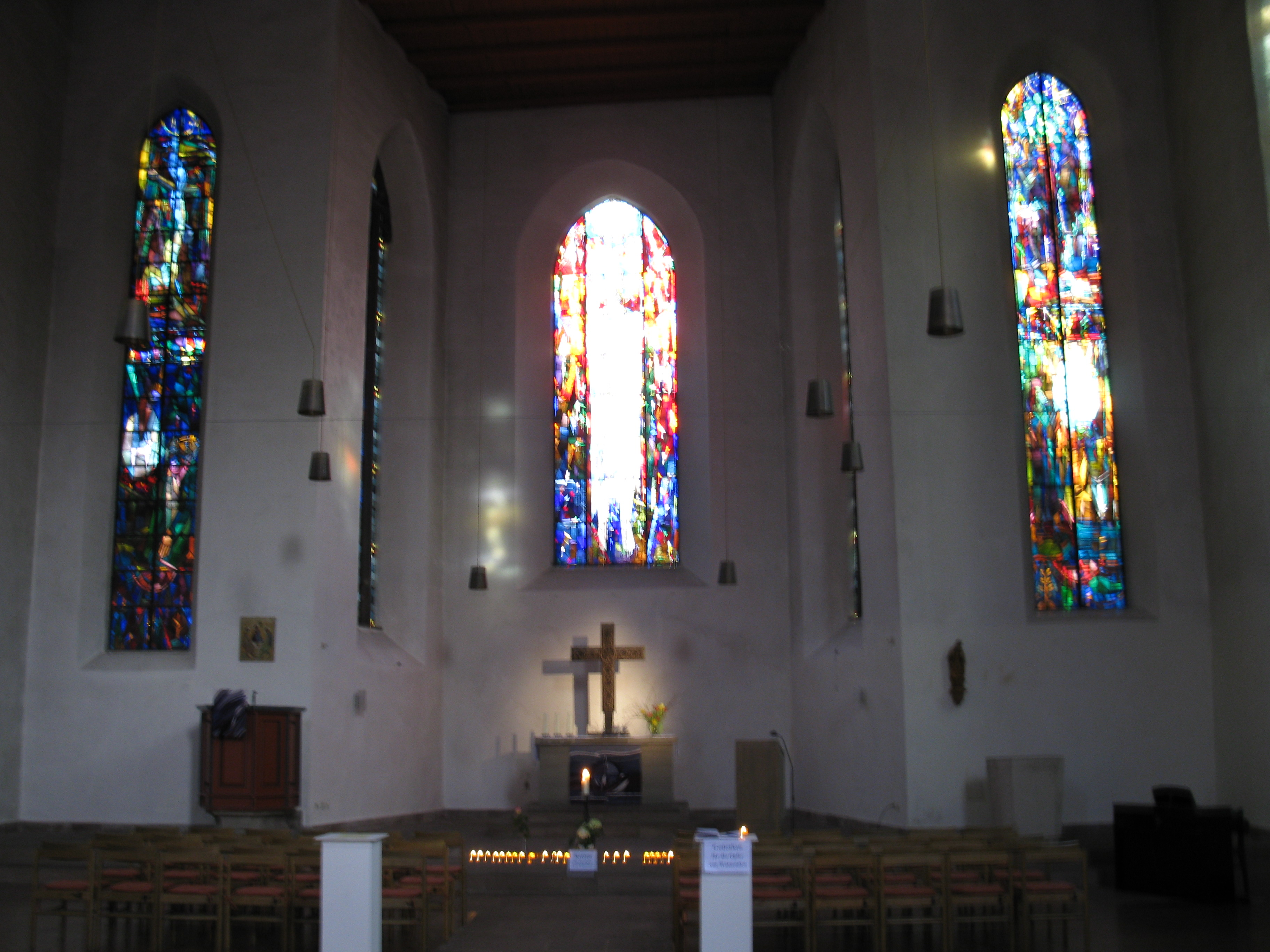 Interior of Saint Jakobi Church, Hildesheim